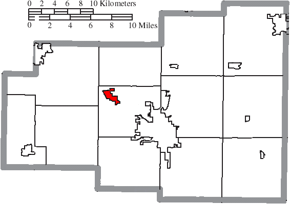 Map of the municipal and township boundaries of Allen County, Ohio, United States, as of the 2000 census, with the location of the village of Elida highlighted. Township borders are shown only in unincorporated areas in order to differentiate incorporated and unincorporated areas more clearly.